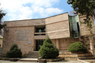 Institute of Combustion Problems